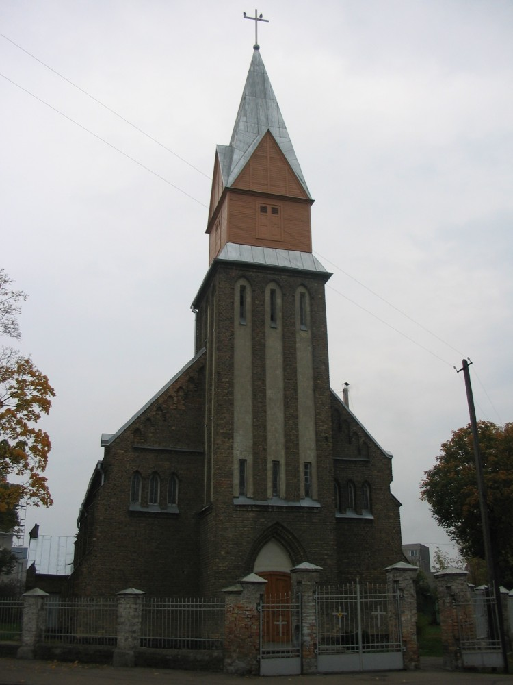 Assumption of the Most Holy Virgin Mary Roman Catholic Church in Bolderāja, RigaLatviešu: Bolderājas Vissvētākās Jaunavas Marijas Debesīs uzņemšanas Romas katoļu baznīca